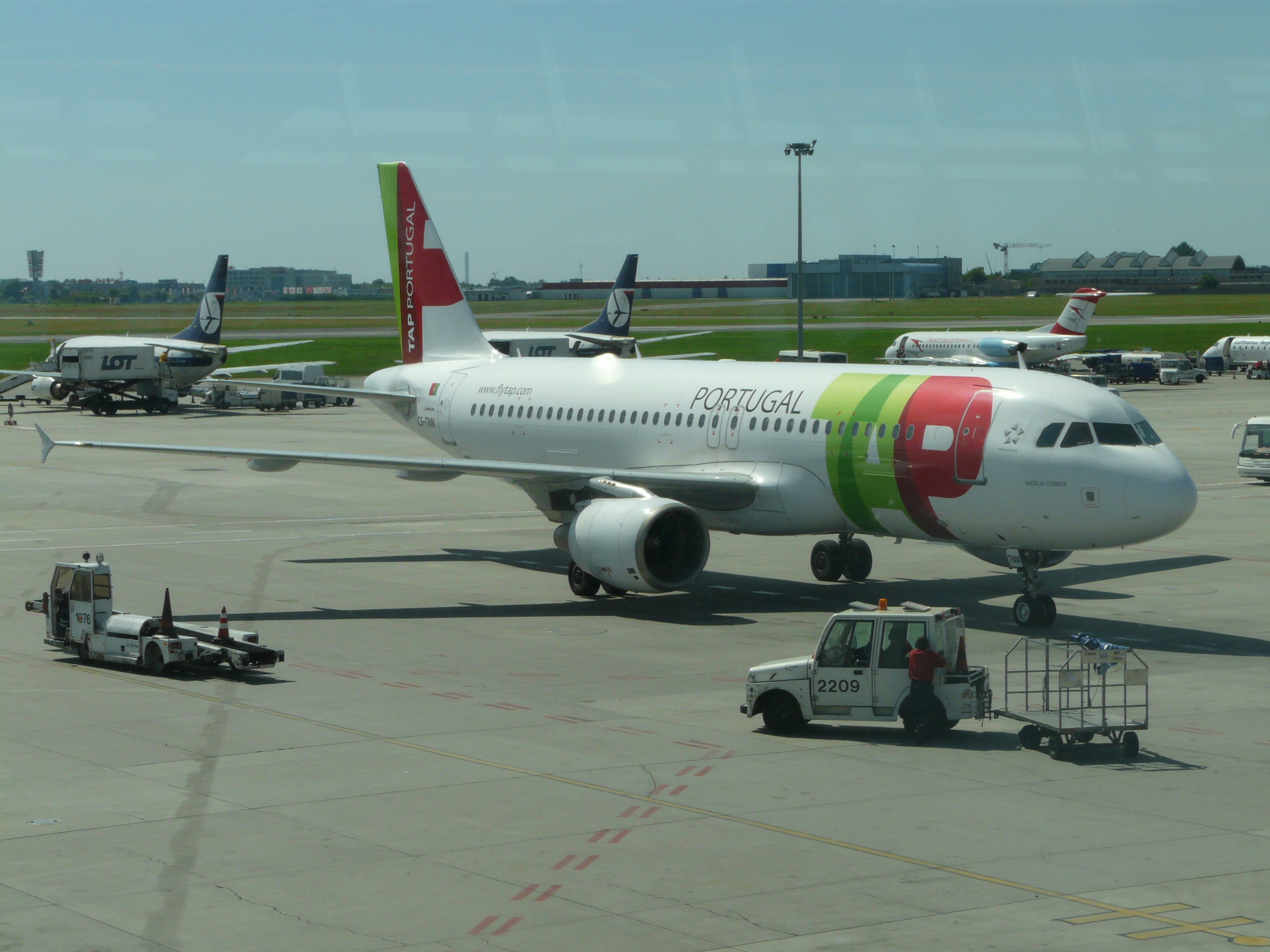 An Airbus A320 of TAP Portugal at Warsaw Frederic Chopin Airport.